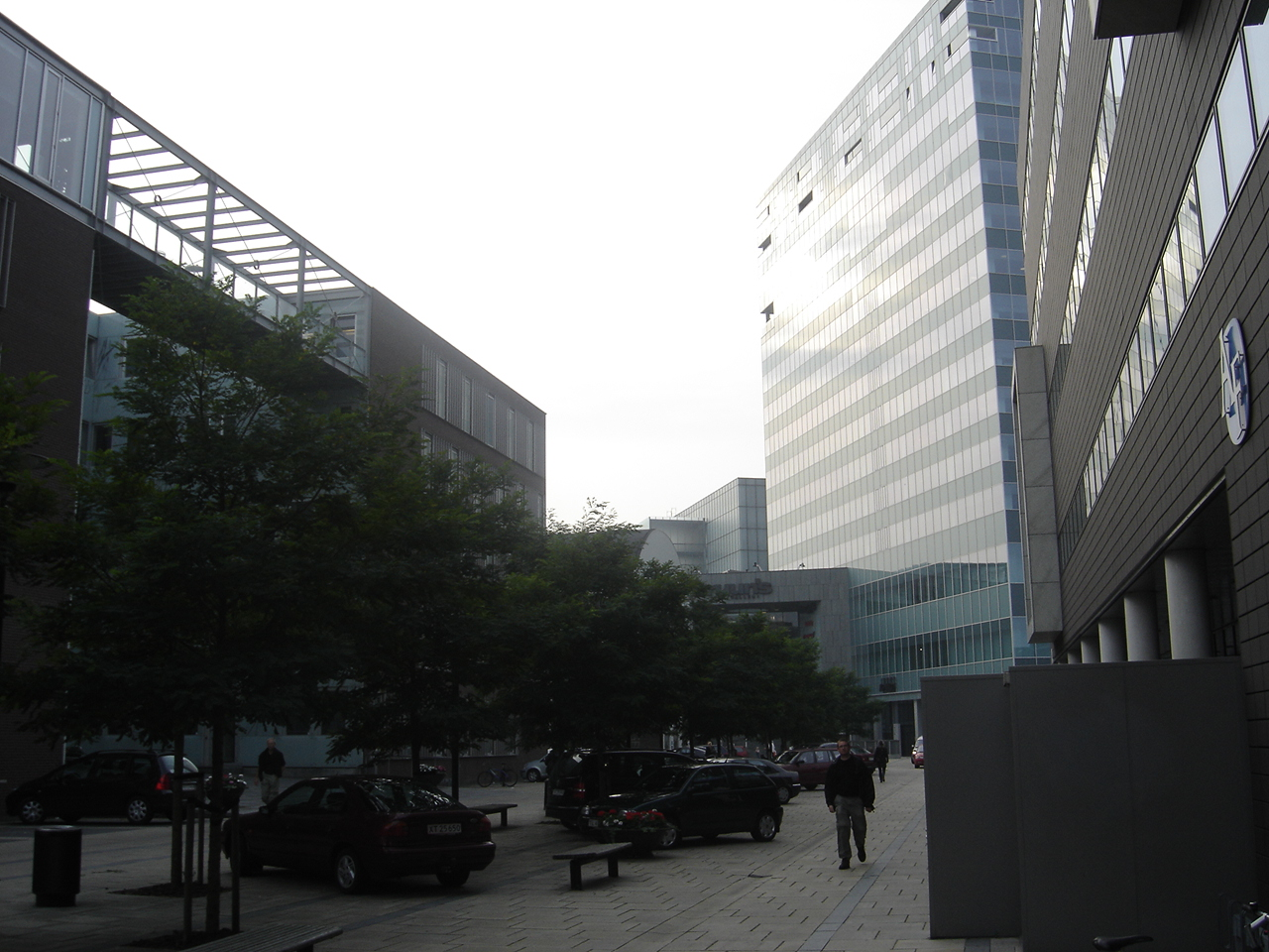 Århus city